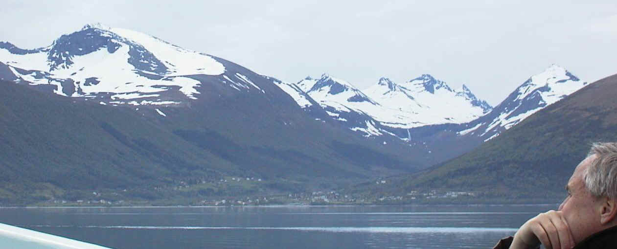 The village Barstadvik in Ørsta, Norway seen from Storfjorden